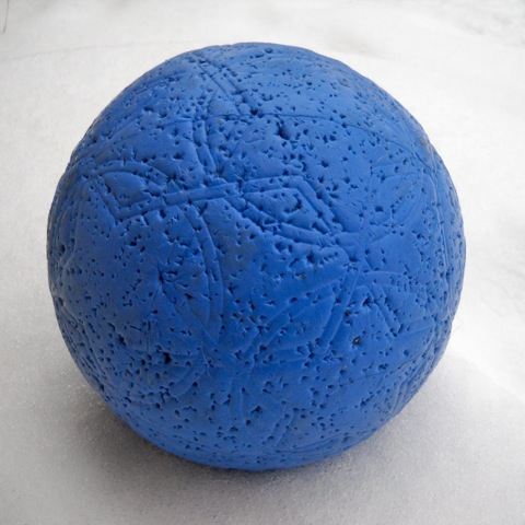 A One World Futbol football that's been chewed up extensively by the photographer's parents' two German Shepherds.